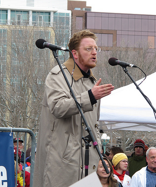 Ben Manski at Wisconsin Wave Rally, March 2011